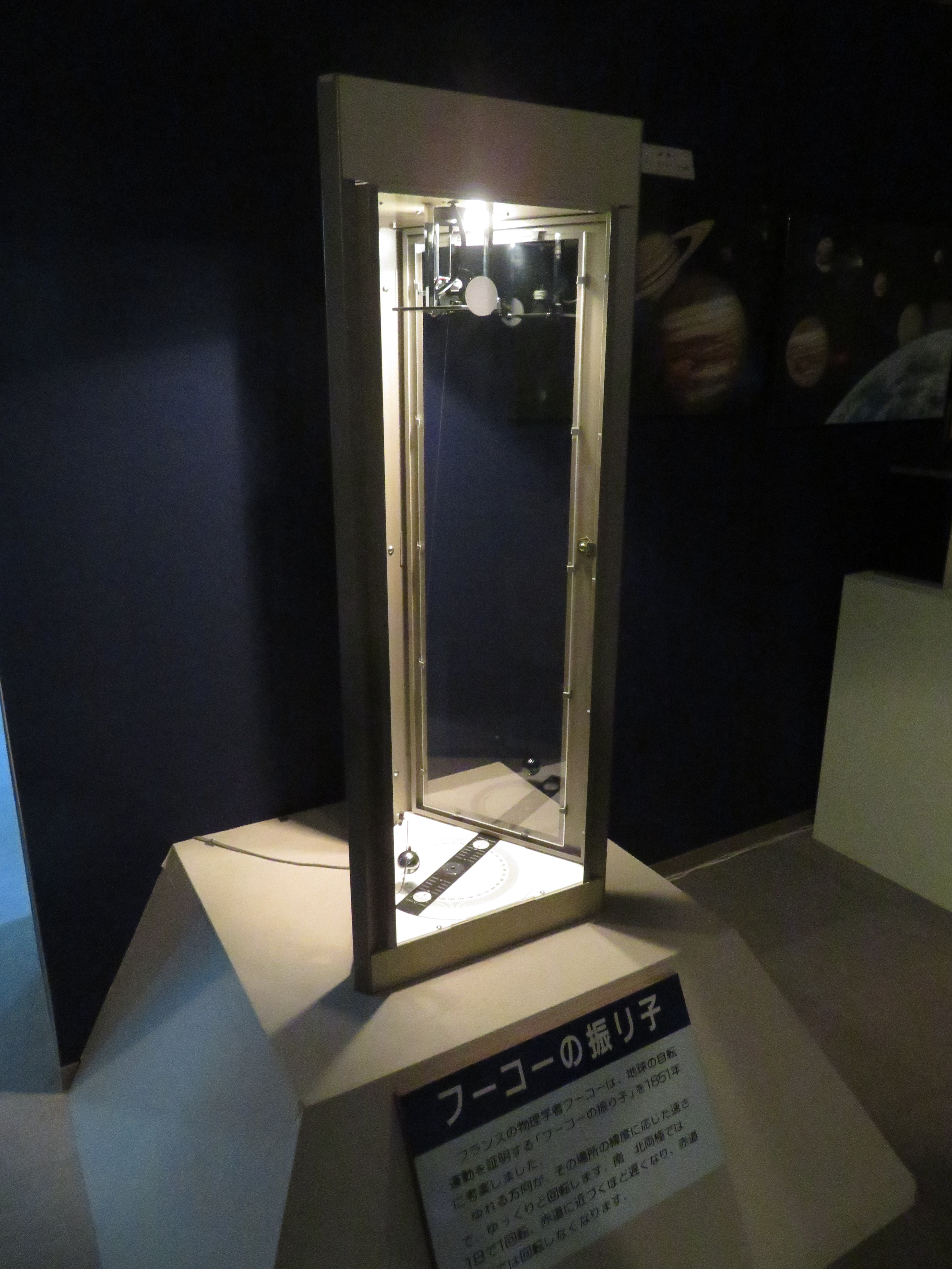 Foucault pendulum in Fujihashi Castle